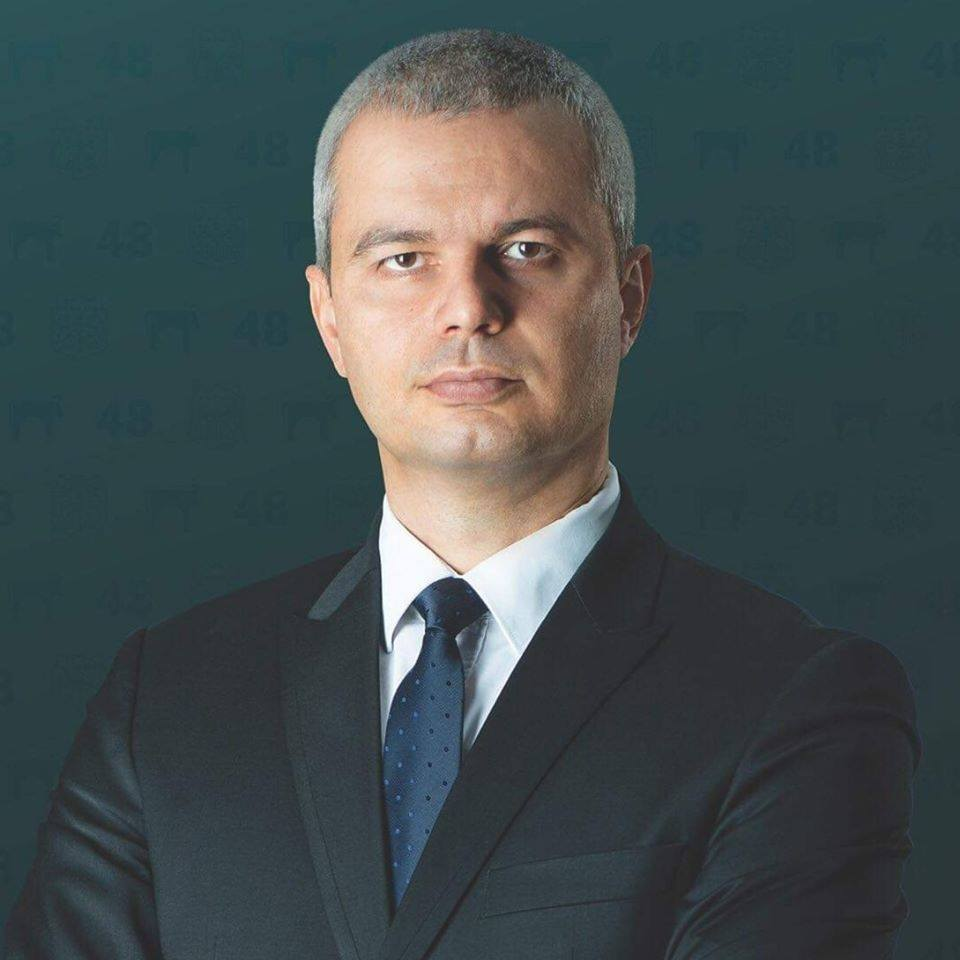 Професионална снимка на д-р Костадин Костадинов.